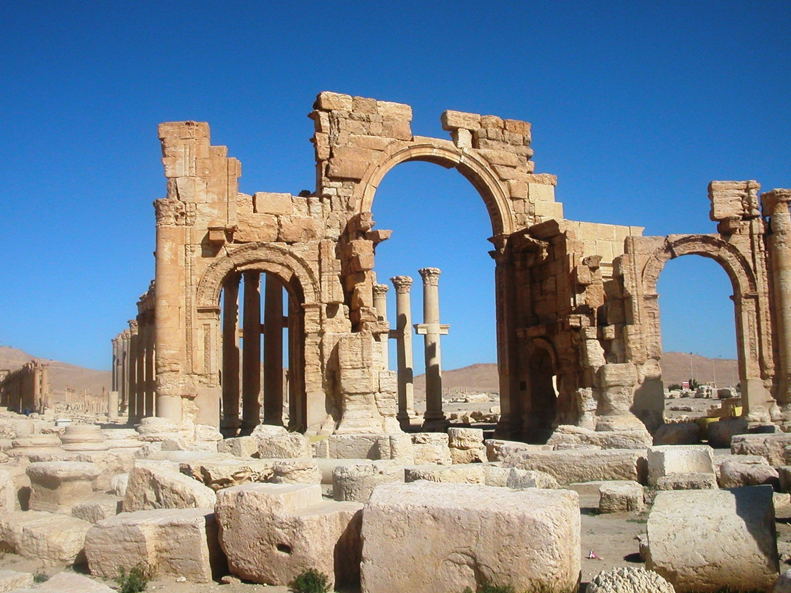 Palmyra 4